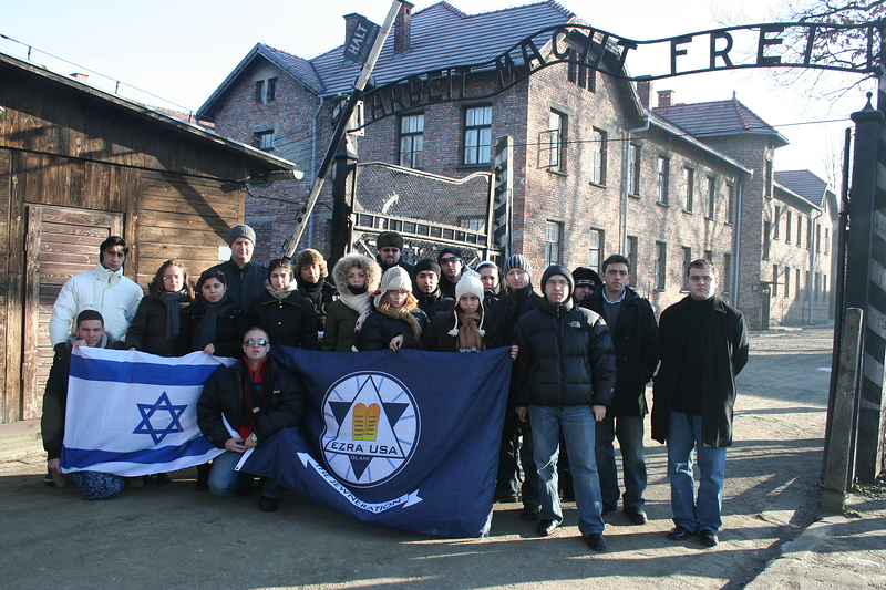 Ezra USA Leadership seminar trip to Poland at gates of Auschwitz